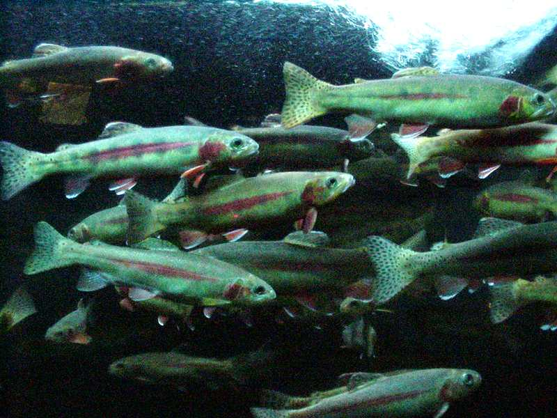 Golden Trout at Sea World